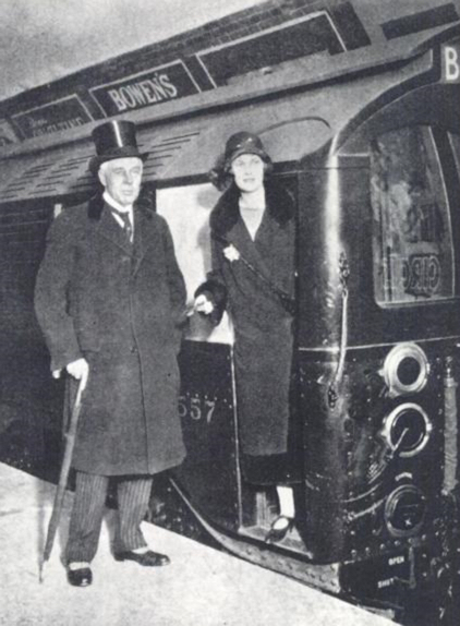 Albert Stanley, 1st Baron Ashfield, chairman of the Underground Electric Railway, and his daughter Marion Stanley at the reopening of the City and South London Railway, 1 December 1924.